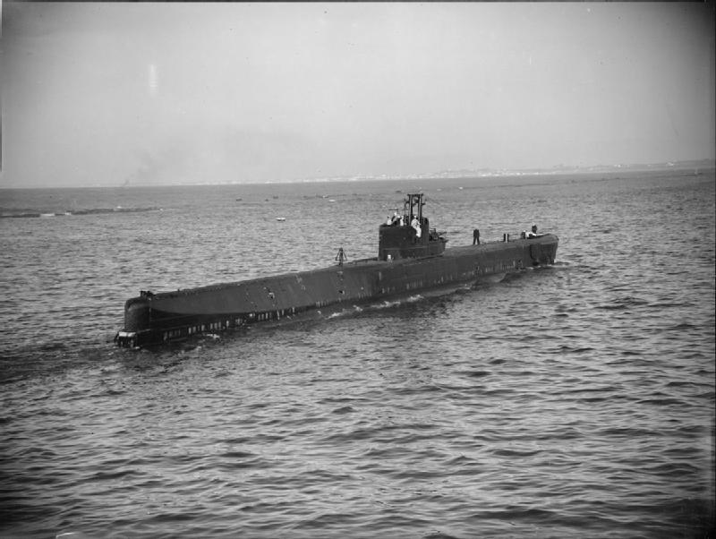 The Royal Navy during the Second World War HM SUBMARINE RORQUAL setting out on patrol from Algiers.